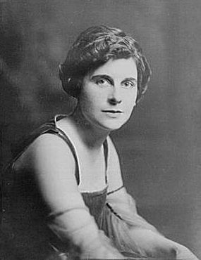 Berenger, Clara S., Miss, portrait photograph